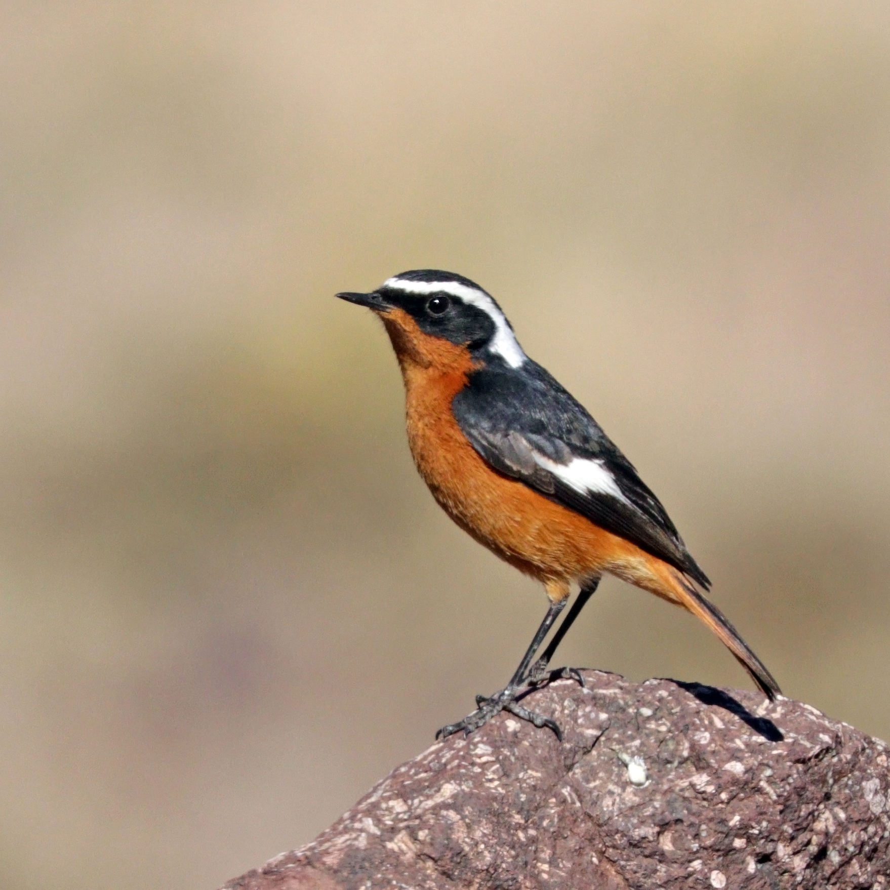 Moussier's redstart (Phoenicurus moussieri) male, Toubkal, Morocco